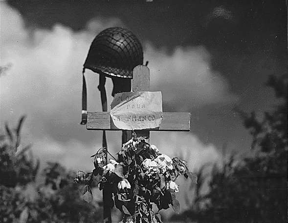 "French civilians erected this silent tribute to an American soldier who has fallen in the crusade to liberate France from German domination. Carentan, France, 06/17/1944".